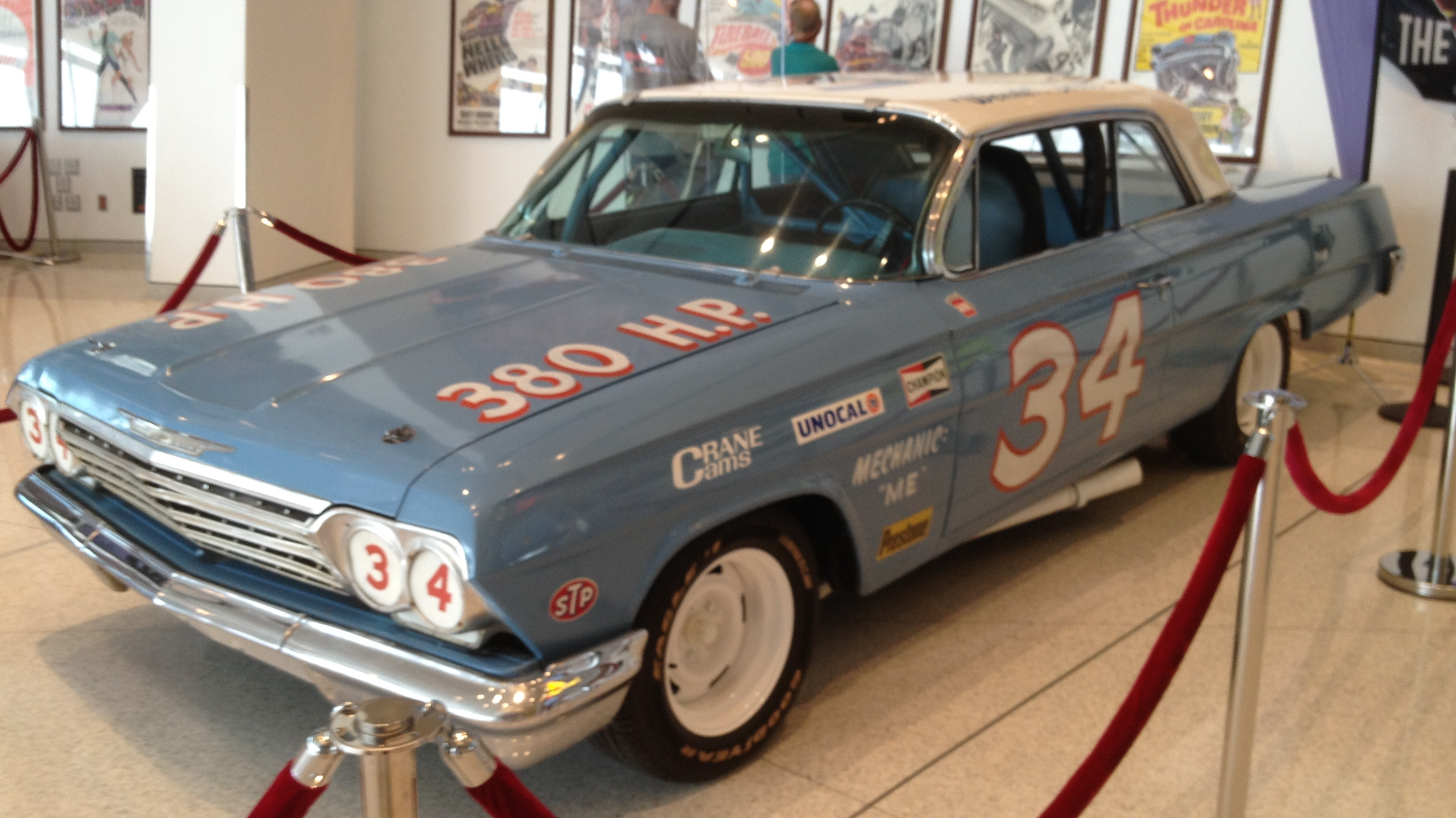 A replica of Wendell Scott's No. 34 1962 Chevrolet, built by Scott for the movie Greased Lightning, on display at the NASCAR Hall of Fame.